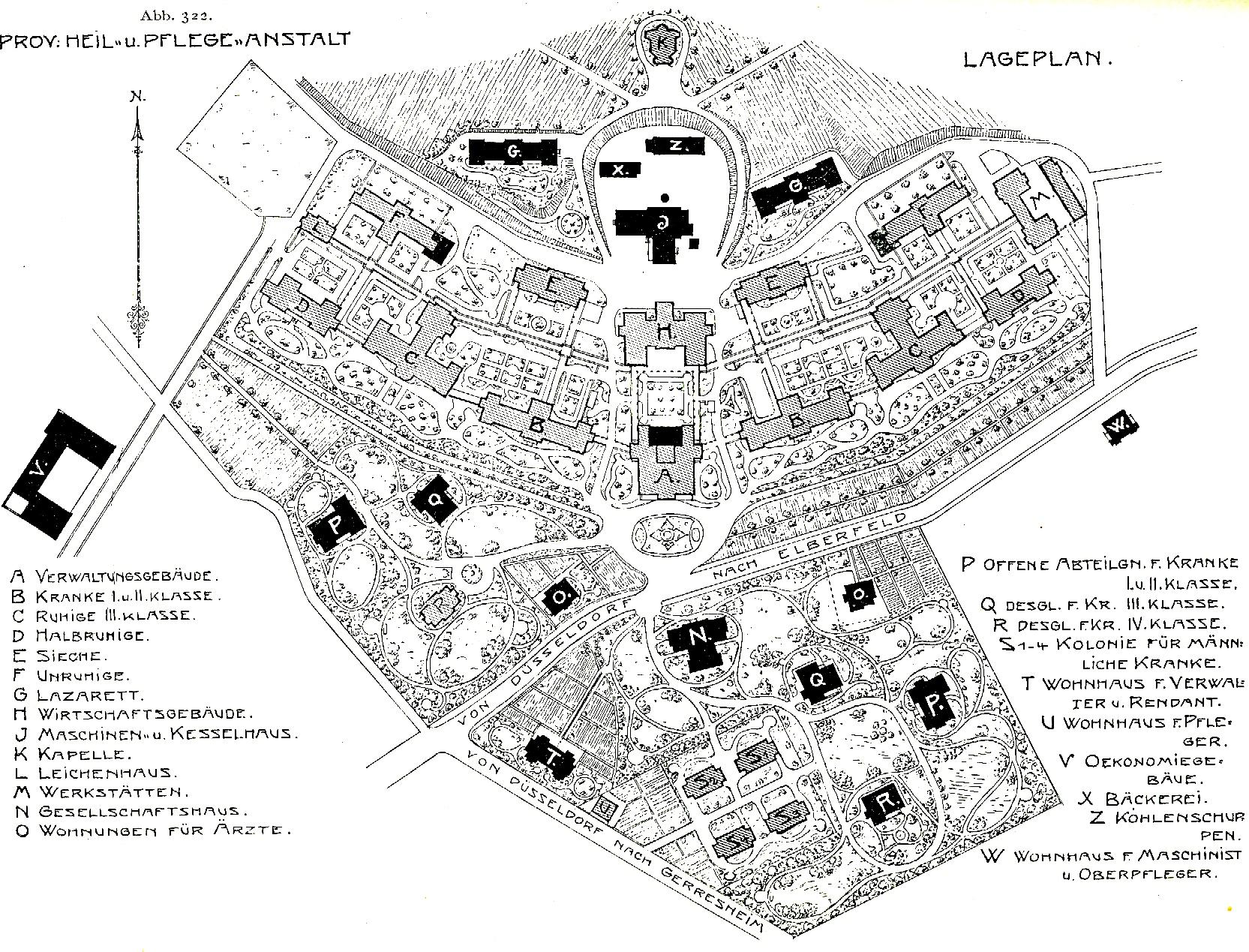 Düsseldorf-Ludenberg, Bergische Landstraße 2, Grundriss der ehemaligen PHP (Provinzial-Heil u. Pflegeanstalten) dann RLK (Rhein. Landesklinik).jpg